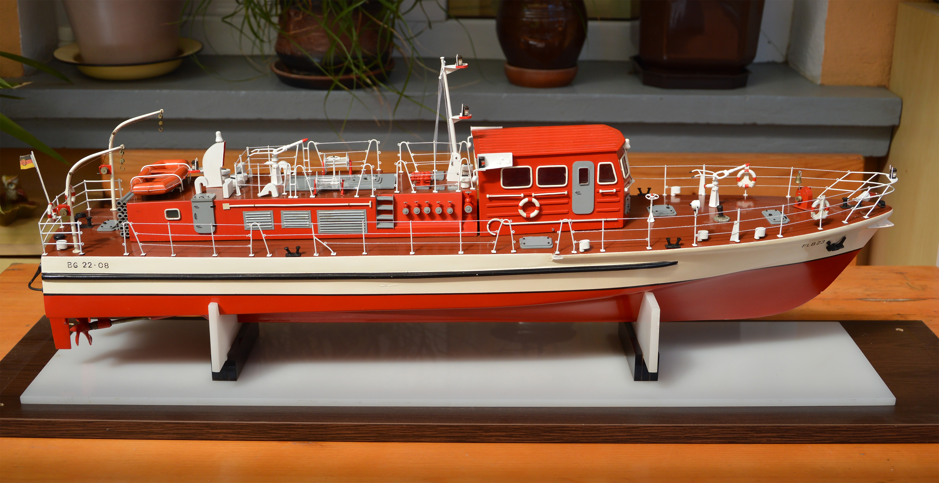 A scale (1:30) model of German fireboat type FLB 23. Built circa 1985 by Hristo Stefanov Boevski. Won several medals at national scale model championships.